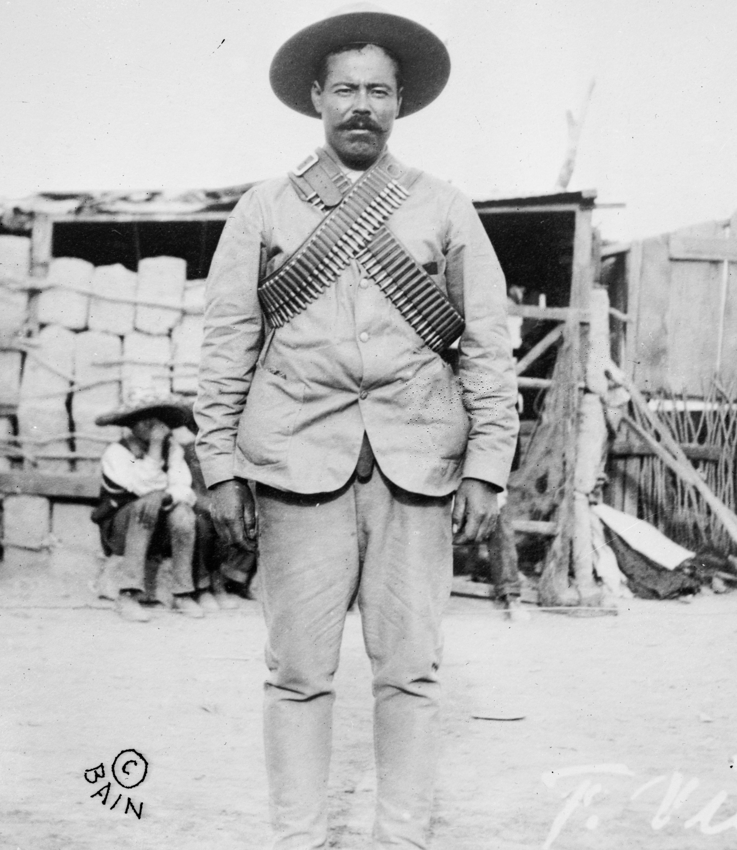 Francisco "Pancho" Villa (1877–1923), Mexican revolutionary general, wearing bandoliers in front of an insurgent camp.